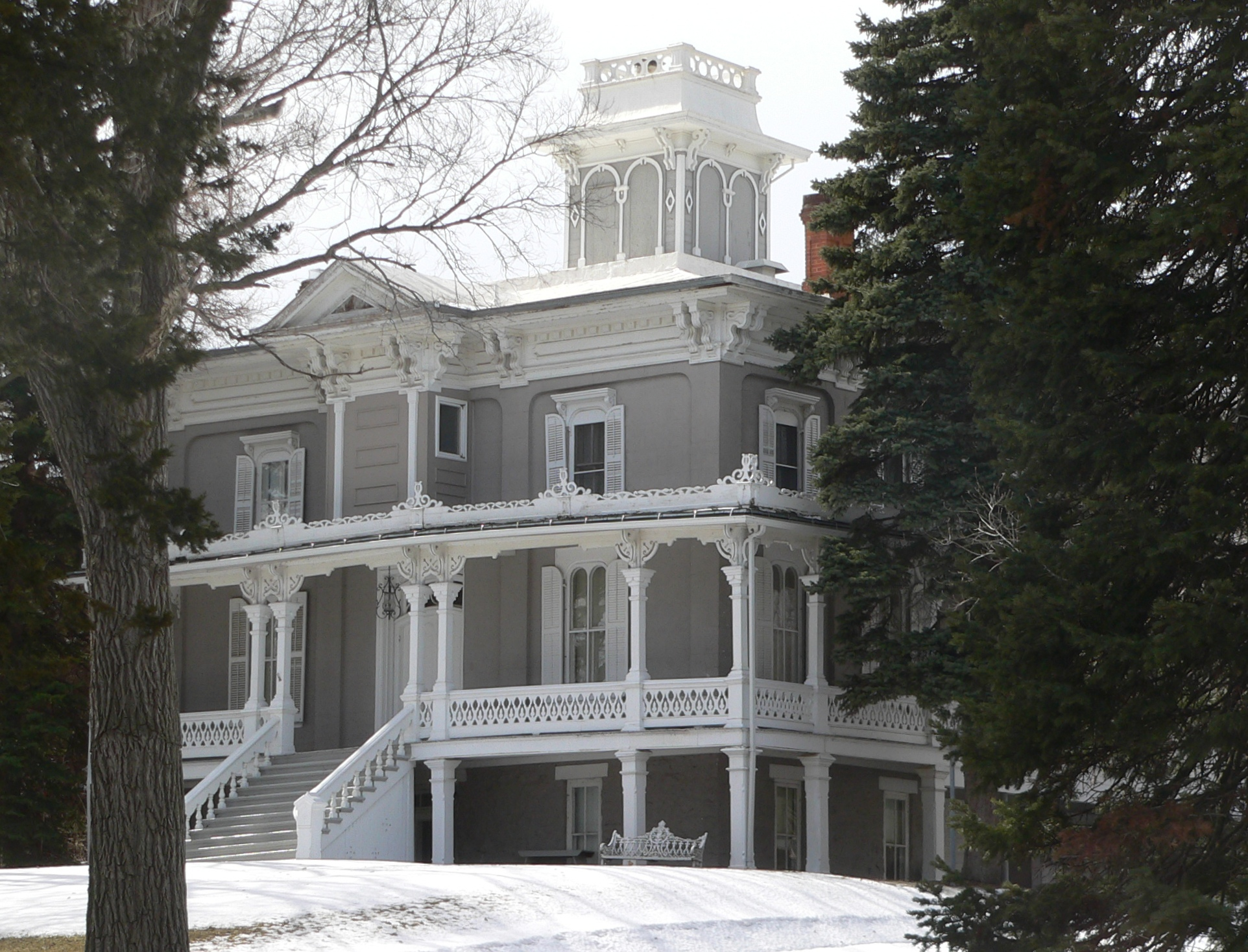 Ohlman-Shannon House, located at 205 Green Street in Yankton, South Dakota; seen from the northeast. The 1871 Italianate house is listed in the National Register of Historic Places.